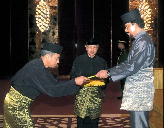 His Majesty the Sultan and Yang Di-Pertuan of Brunei Darussalam presents a Letter of Credentials to the newlyappointed Ambassador of Brunei Darussalam to Russia, His Excellency Mohd Janin bin Erih on 8 July 2004.